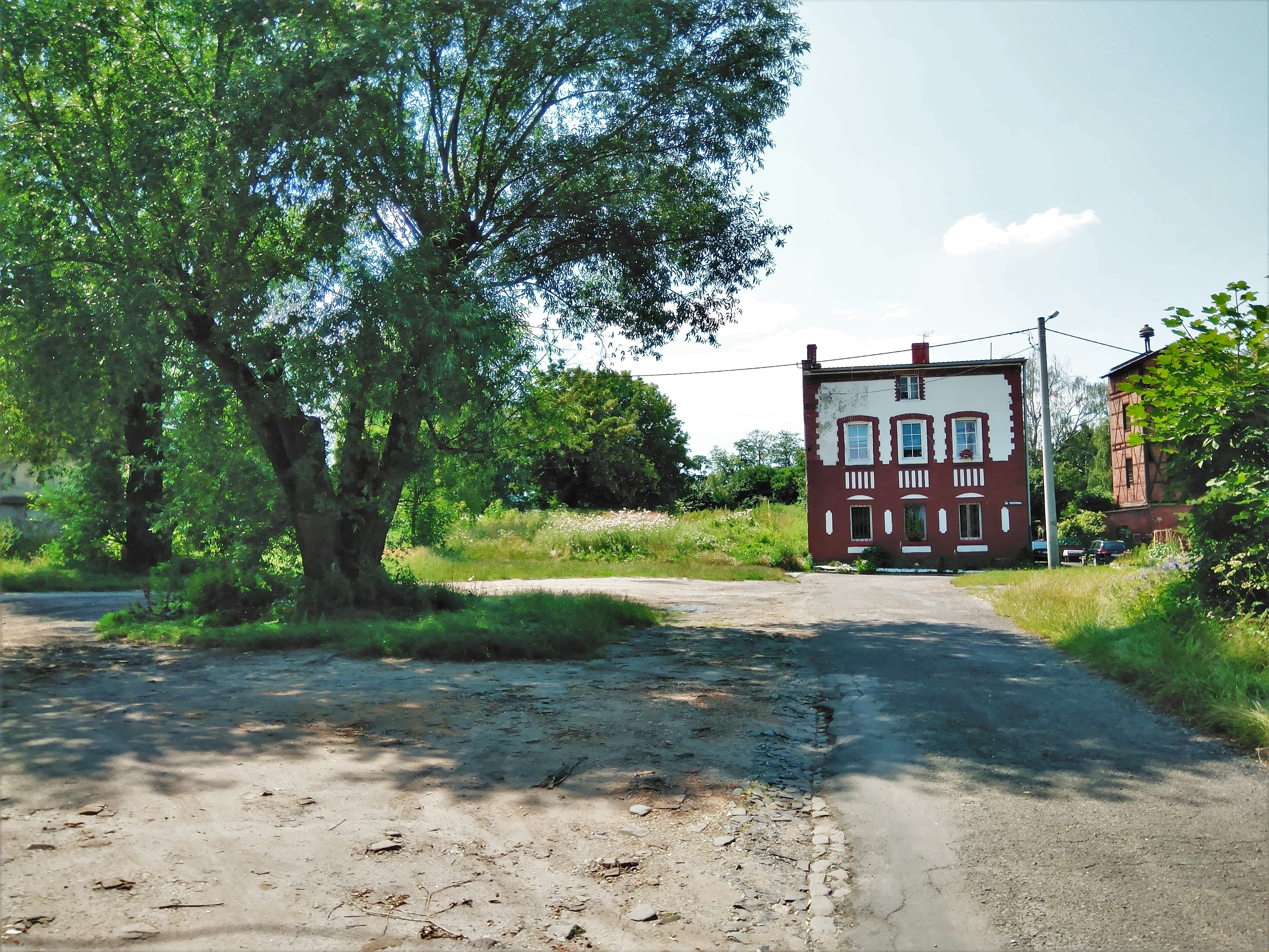 Remnants of the Old Town (destroyed by Red Army in 1945) in Kietrz/Katscher, Upper Silesia, Poland